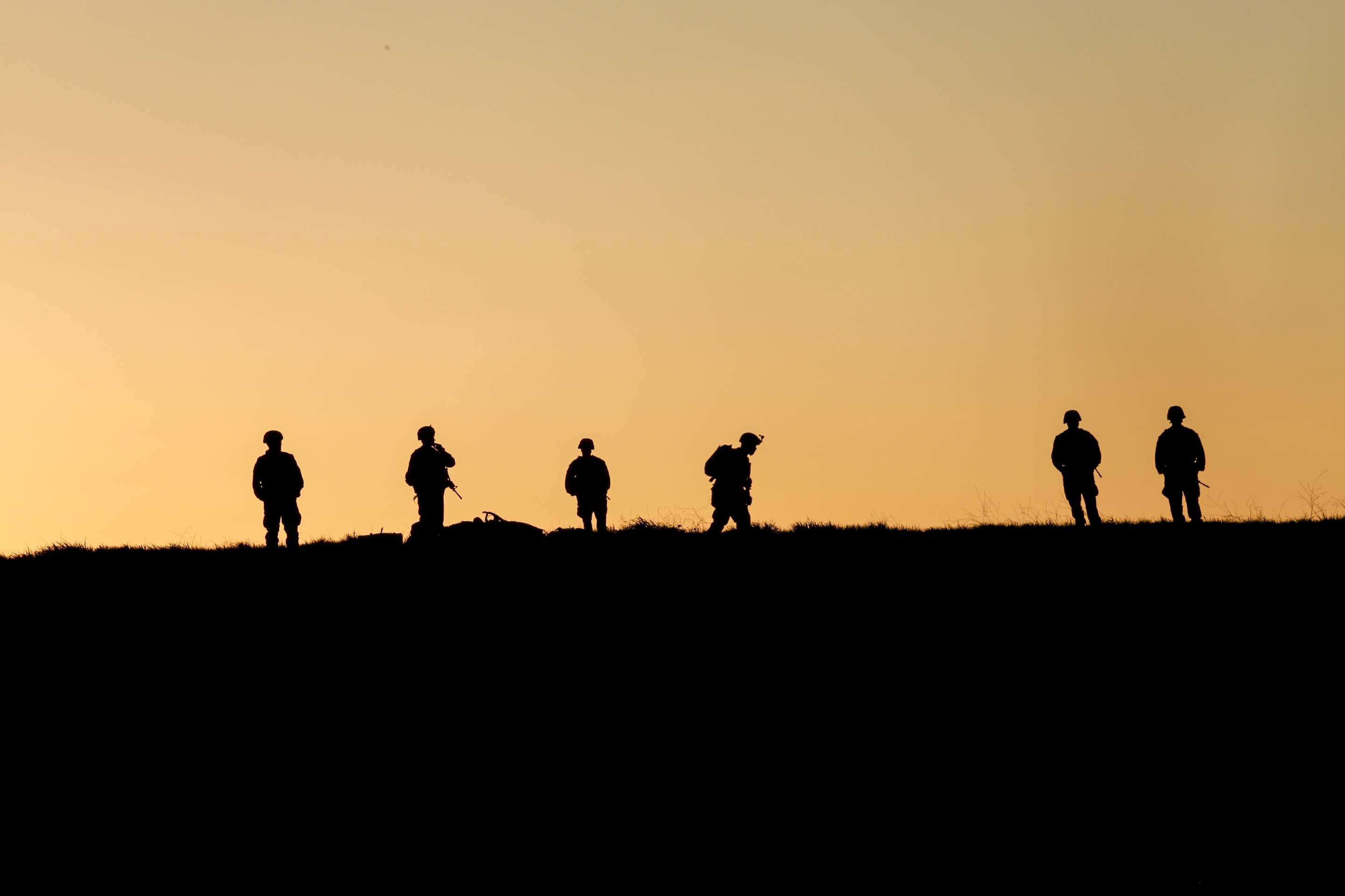 Marines with Battalion Landing Team 3rd Battalion, 1st Marine Division, 15th Marine Expeditionary Unit conduct a leaders’ reconnaissance during Amphibious Squadron/Marine Expeditionary Unit Integration Training (PMINT) aboard Camp Pendleton, Calif., March 5, 2015. The Marines of BLT 3/1 used PMINT to hone their skills in a field environment to improve their combat effectiveness as a unit. (U.S. Marine Corps photo by Sgt. Jamean Berry/Released)